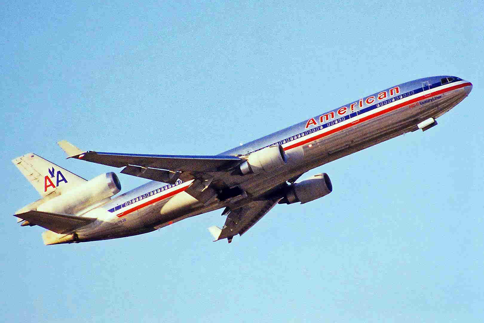 To FedEx as N594FE.